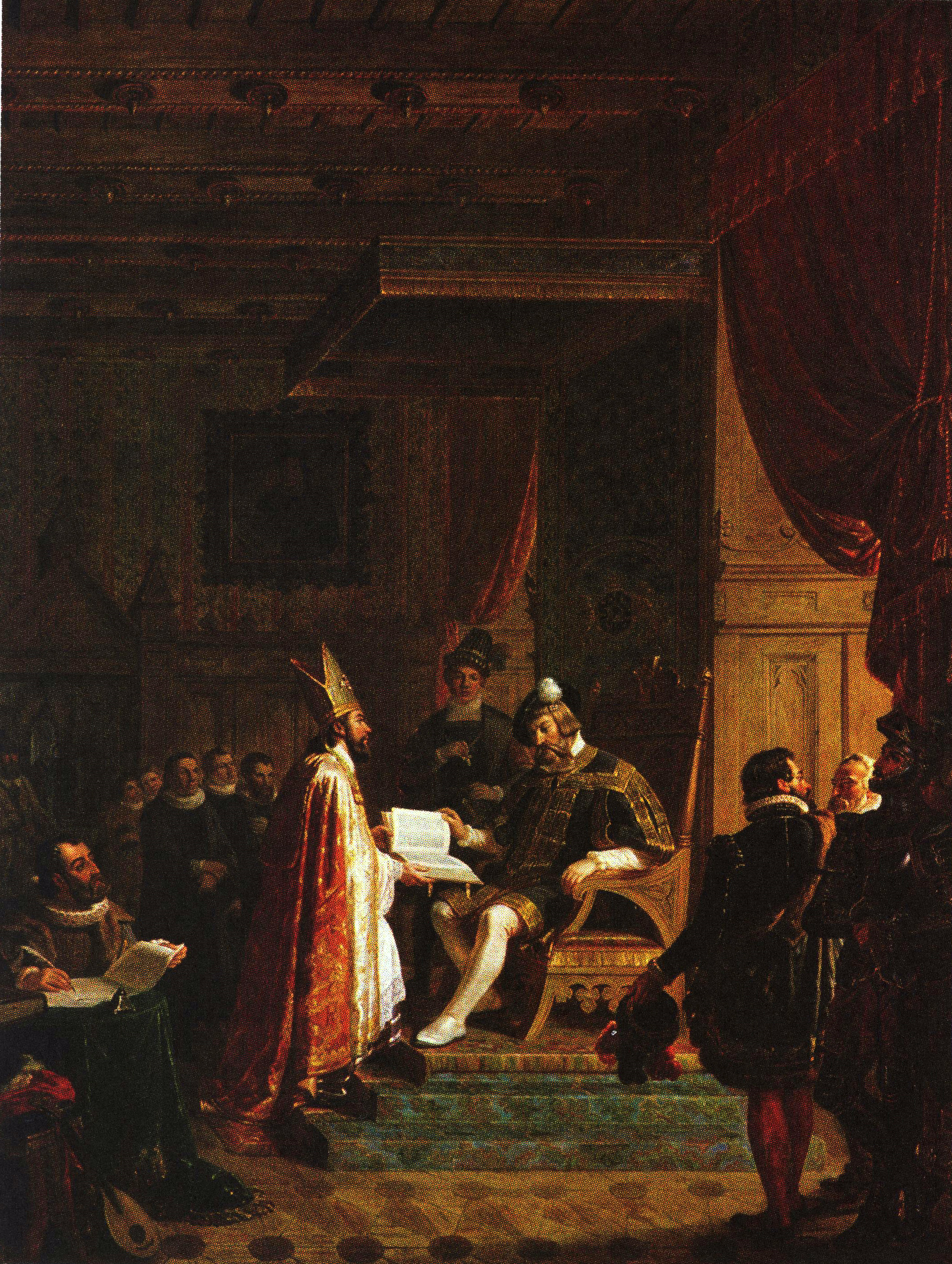 Mikael Agricola presents the Finnish translation of the New Testament to Gustav Vasa. The painting does not describe a known historical event, but mirrors the view of the historical romanticism, that Mikael Agricola was a founding father of Finnish culture and literature.